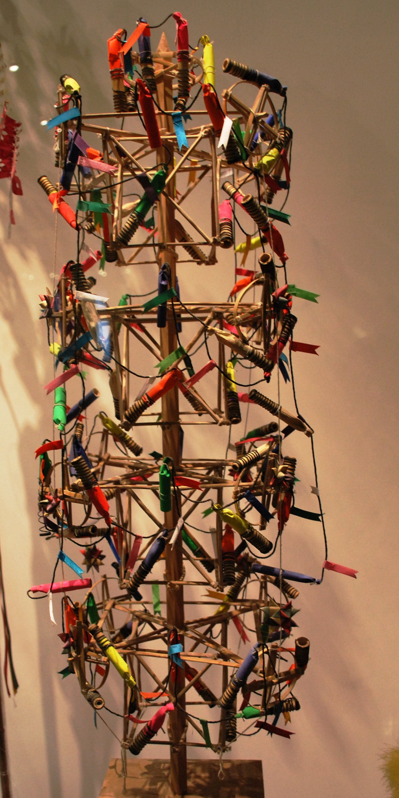 Fireworks "castle" from Guerrero state on display at the Museum of Artes Populares in Mexico City